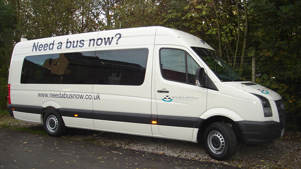 Volkswagen Crafter